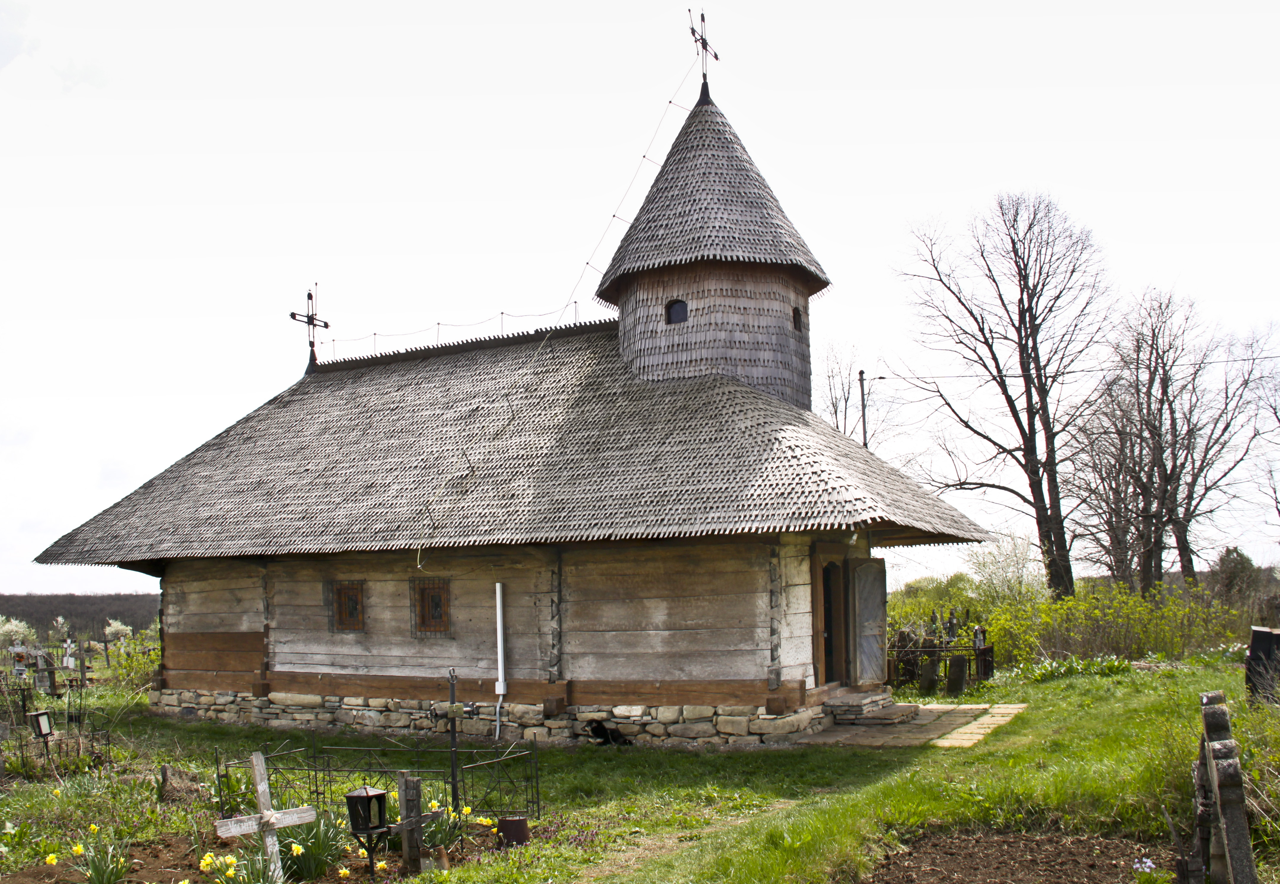 Bujoreni, Teleorman county, Romania: the wooden church.